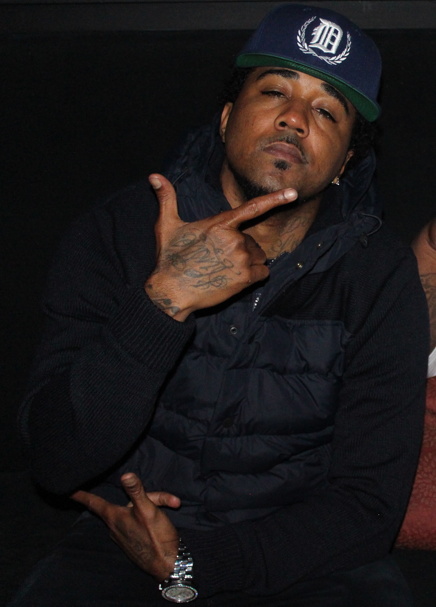 The rapper Problem at the El Rey Theatre in December 2013.